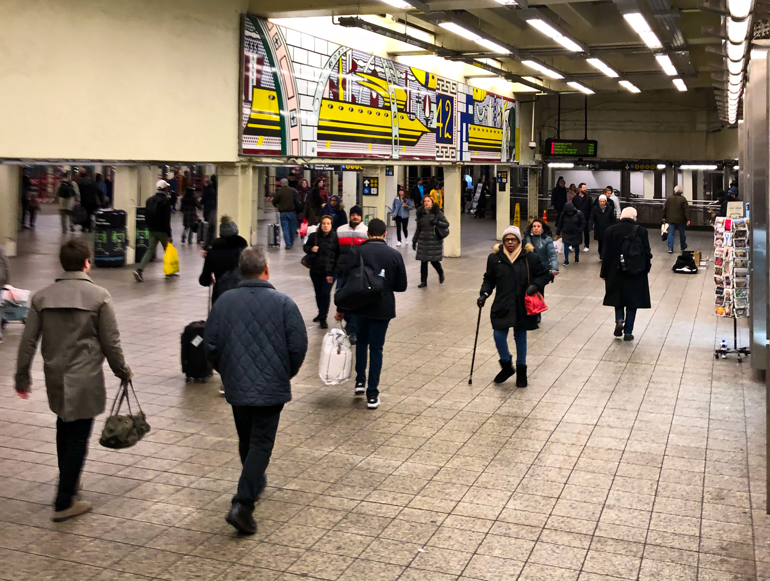 The inside of the 42 Times Square subway station, near the Shuttle tracks